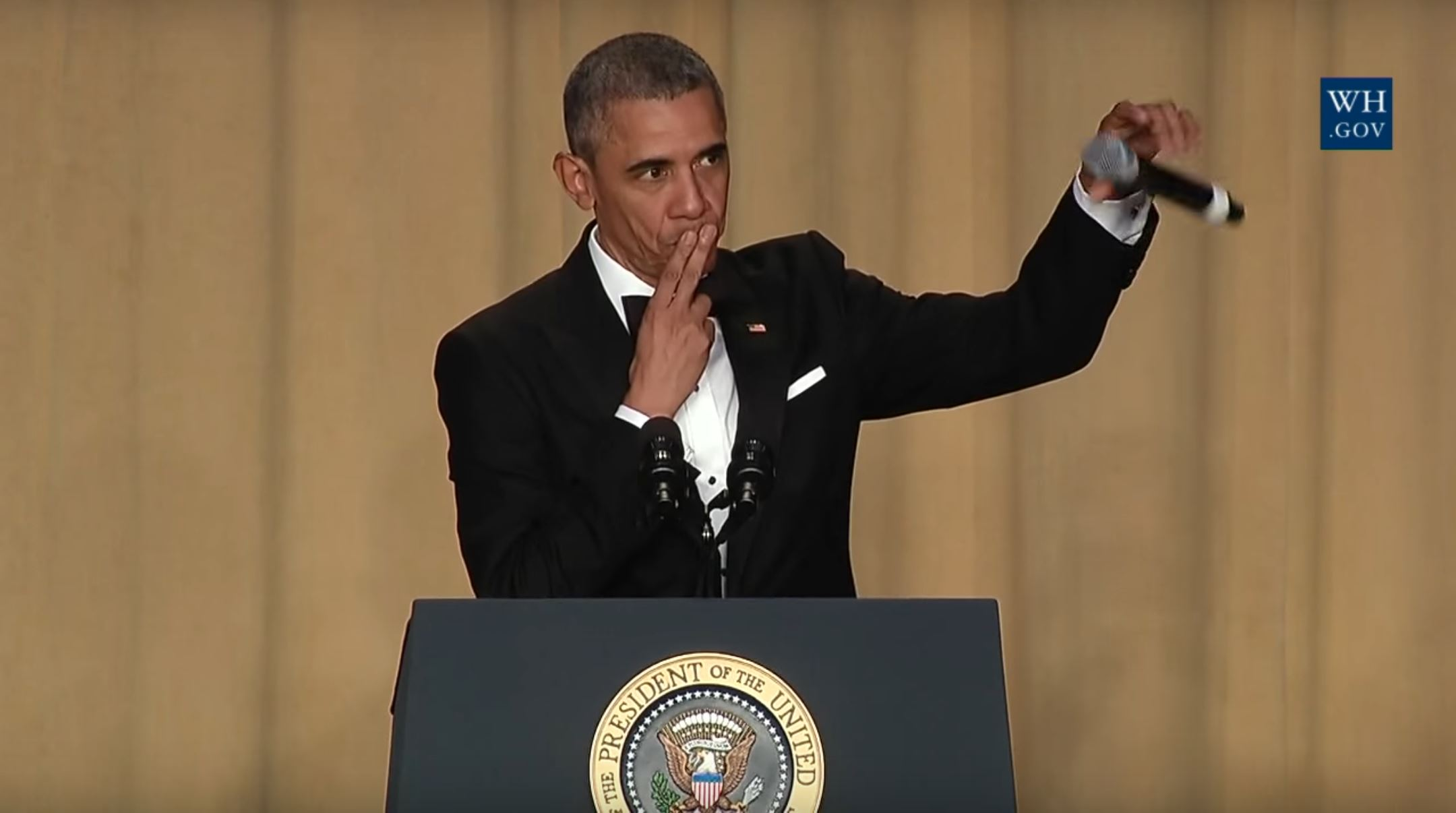 Screenshot of a video of President Barack Obama ending his final White House Correspondents' Association Dinner in 2016 with a mic drop